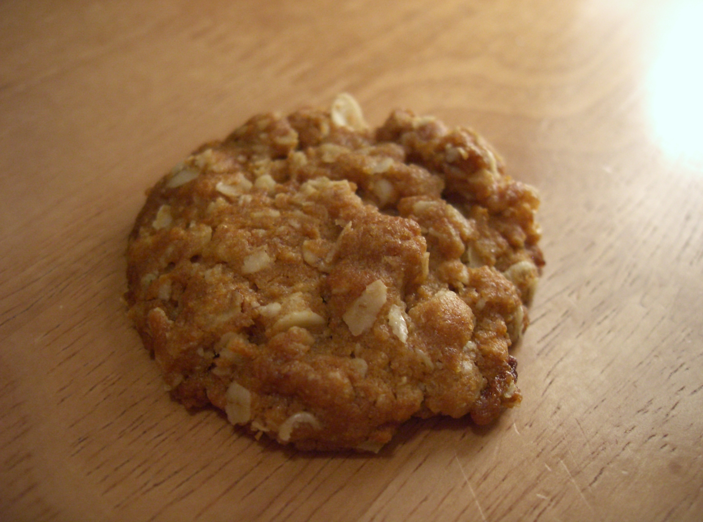 A single freshly cooked ANZAC biscuit sitting on my kitchen table. Not for long, though :). Note that it was made without coconut which is a traditional ingredient.